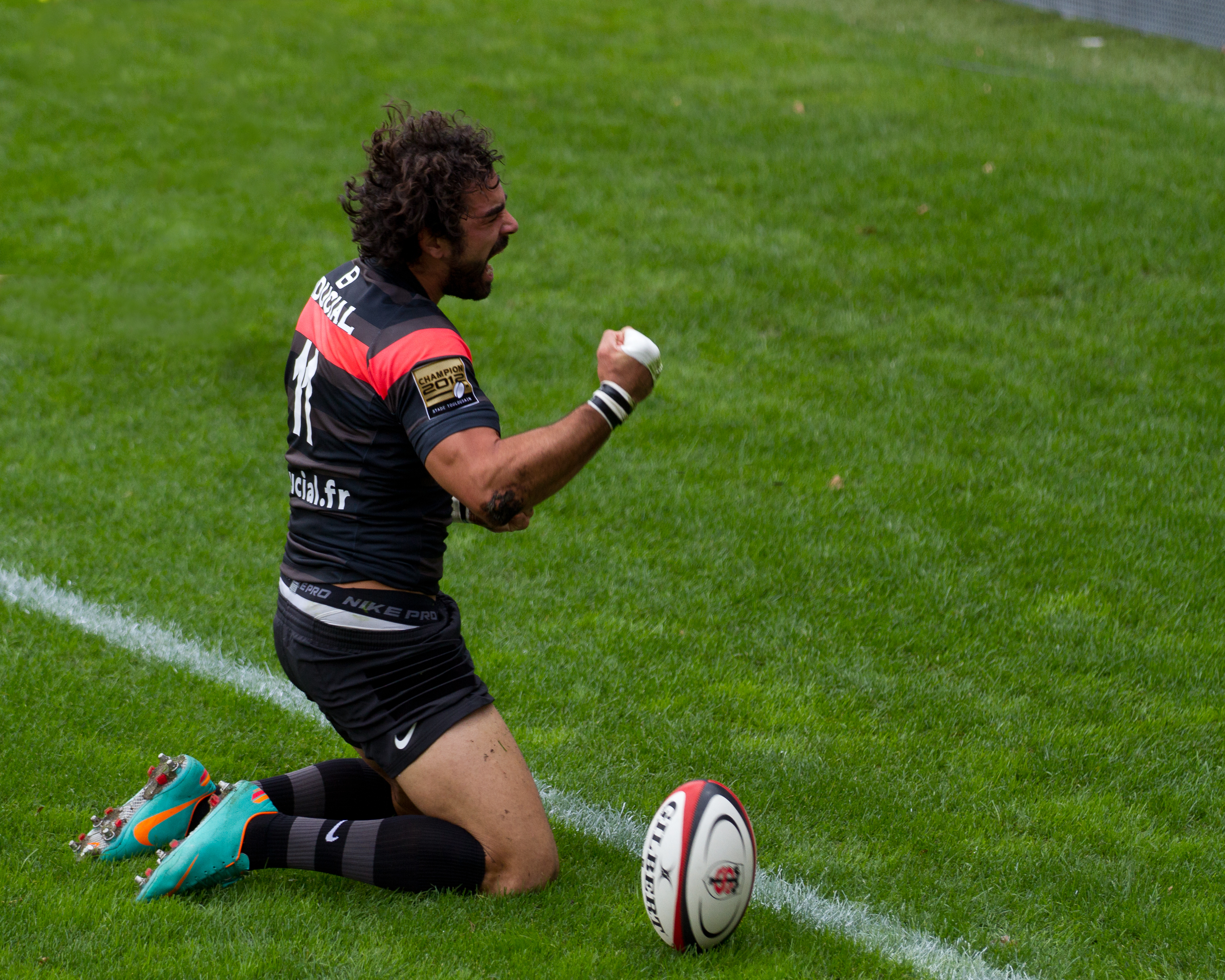 Top 14 — 1 November 2012, Stade Ernest-Wallon. Match between: Stade toulousain — Racing Métro 92 Yoann Huget